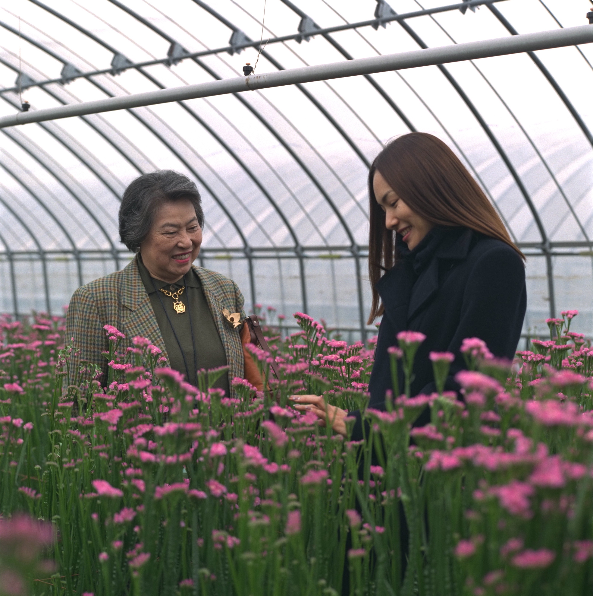 Governor Domoto and Mizuka: Governor Domoto and Mizuka in green house at flower farm